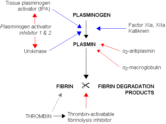 Fibrinolysis